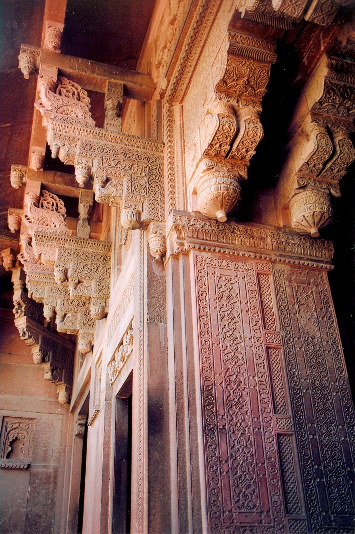 Decorated column, Agra Fort, Agra, India.